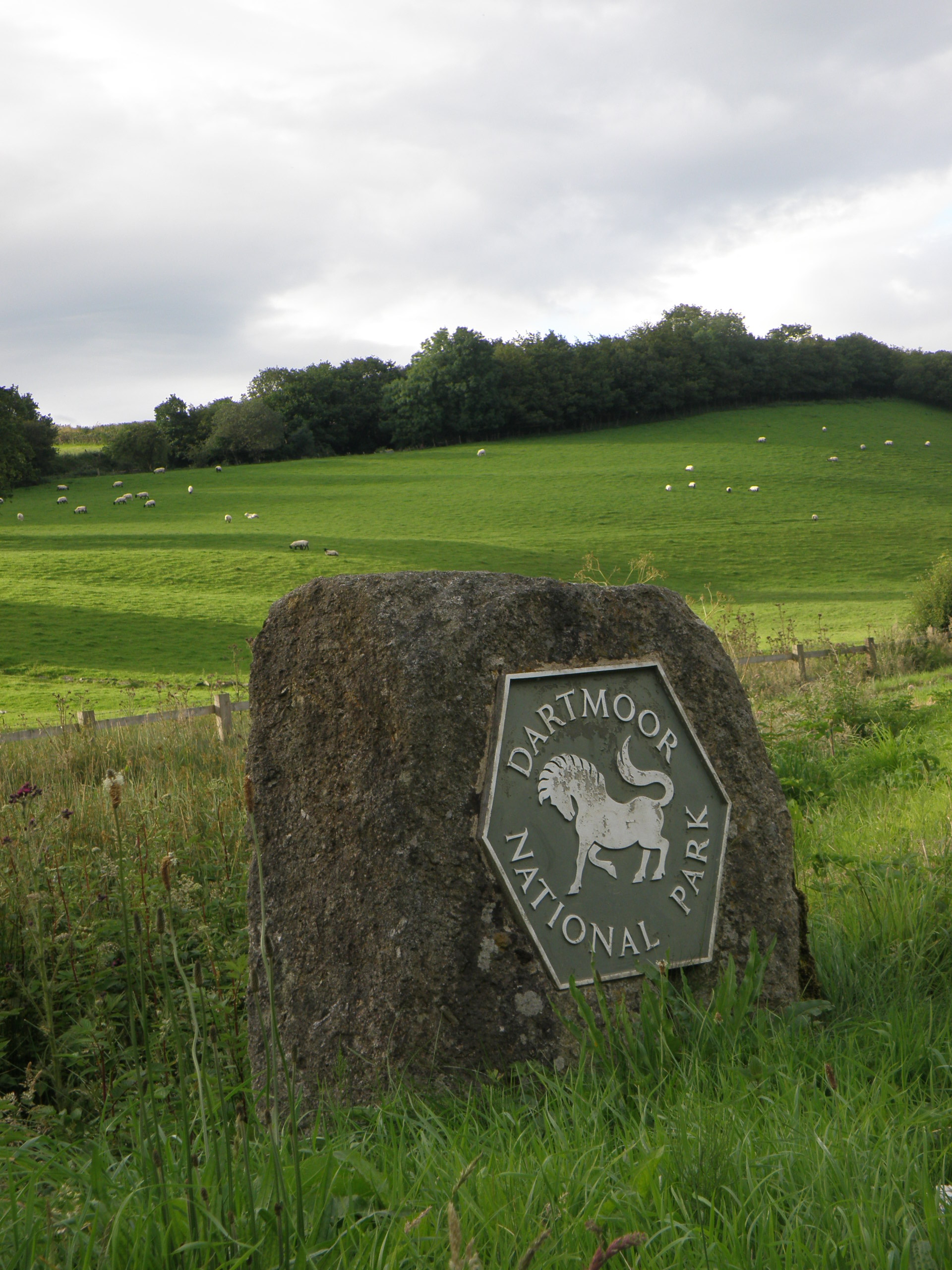 Boundary stone bordering the Dartmoor National Park, England. Summer 2012.